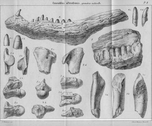 Illustration of fossilized remains of the crocodylian "Crocodilus" affuvelensis found from the Fuvelian Lignites of France. Plate 1 of "Note sur les reptiles fossiles des dépôts fluvio-lacustres crétacés du bassin à lignite de Fuveau." by P. Matheron Bulletin de la Société Géologique de France 26:781–795.